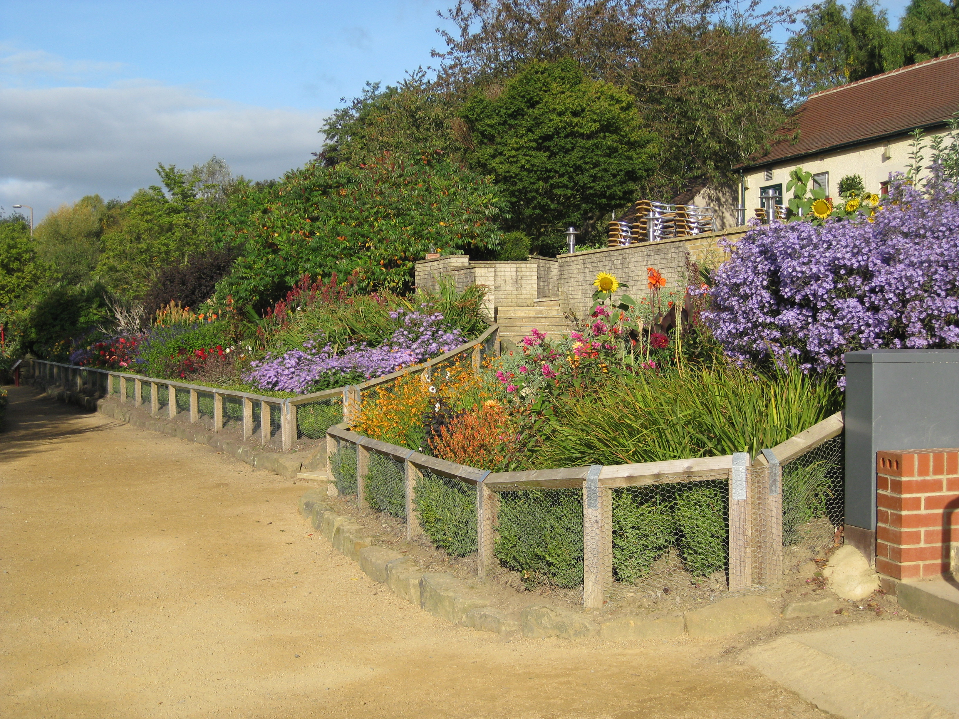 The Bakehouse Border, a display area in Golden Acre Park, Leeds, beside the Cafe. Mainly late season perennials.